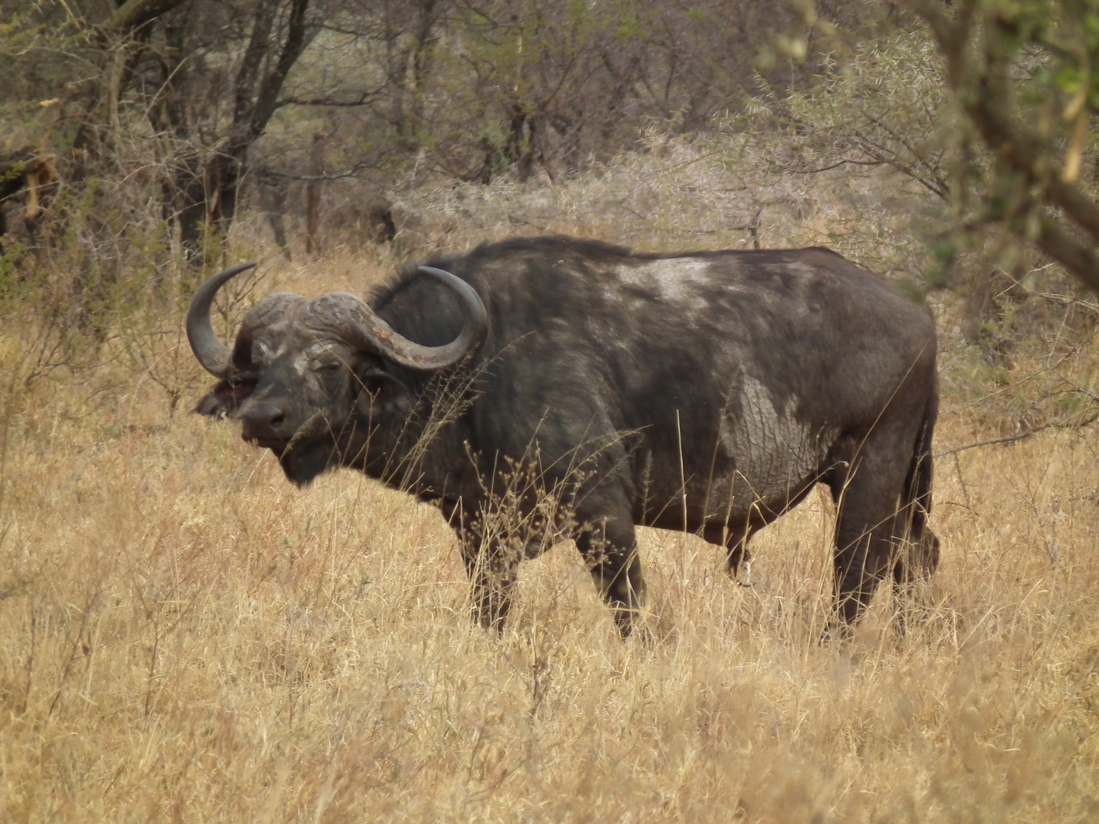 The African buffalo, affalo, M'bogo or Cape buffalo (Syncerus caffer) is a large African bovine. Photo taken in Tanzania